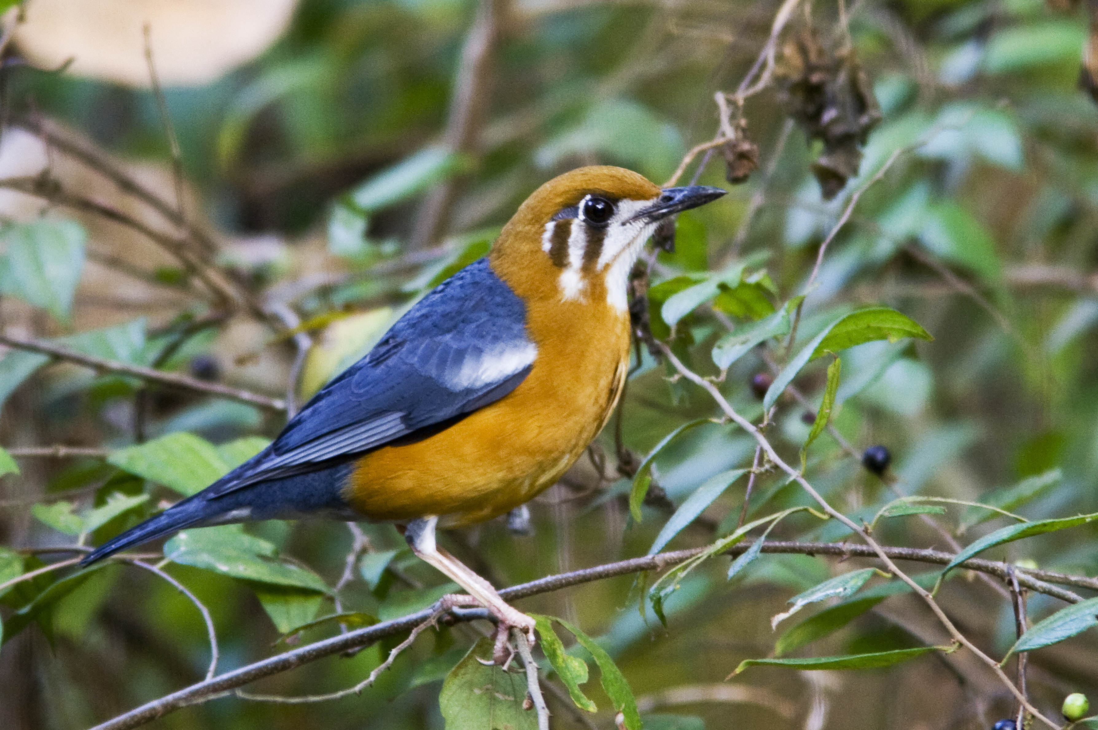 Orange-headed Thrush (Zoothera citrina cyanotus)